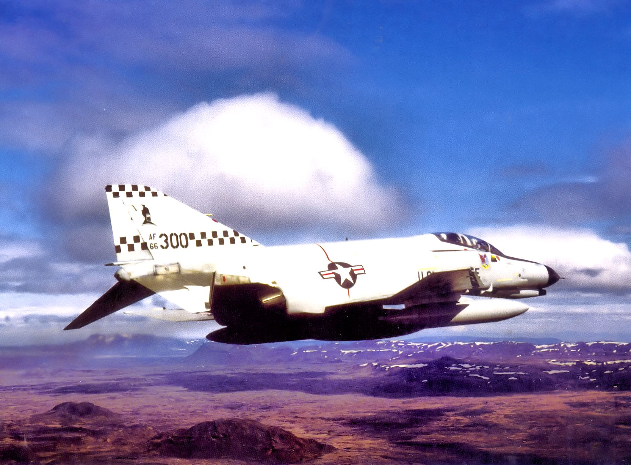 57th Fighter Interceptor Squadron McDonnell F-4E-32-MC Phantom 66-300 Aircraft was sold to Turkey in 1987. A plane bearing this serial number is on outdoor display at Keflavik AB, Iceland, but it is not actually the original 66-0300.